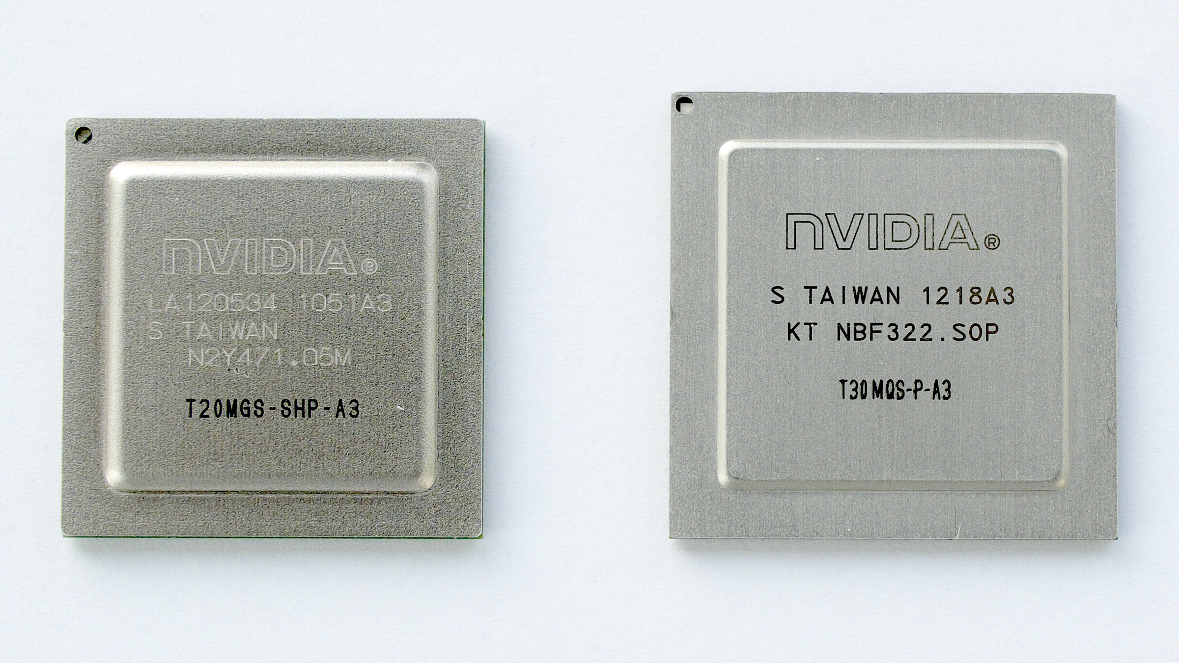 NVIDIA Tegra 2 (T20) and Tegra 3 (T30) chips, housing with heatspreader.